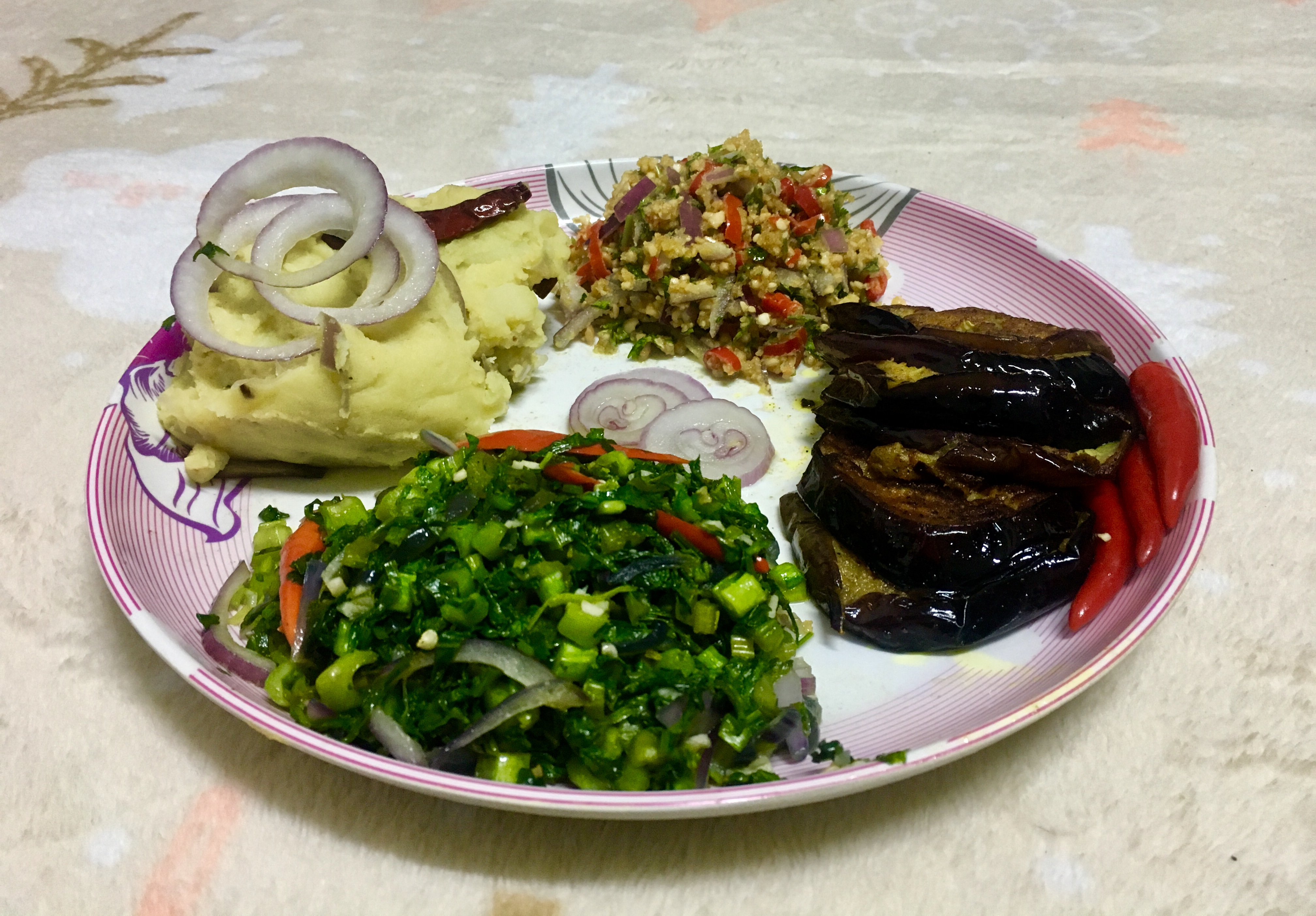 lai shak, mashed potato & fried eggplant at Changsha University of Science & Technology